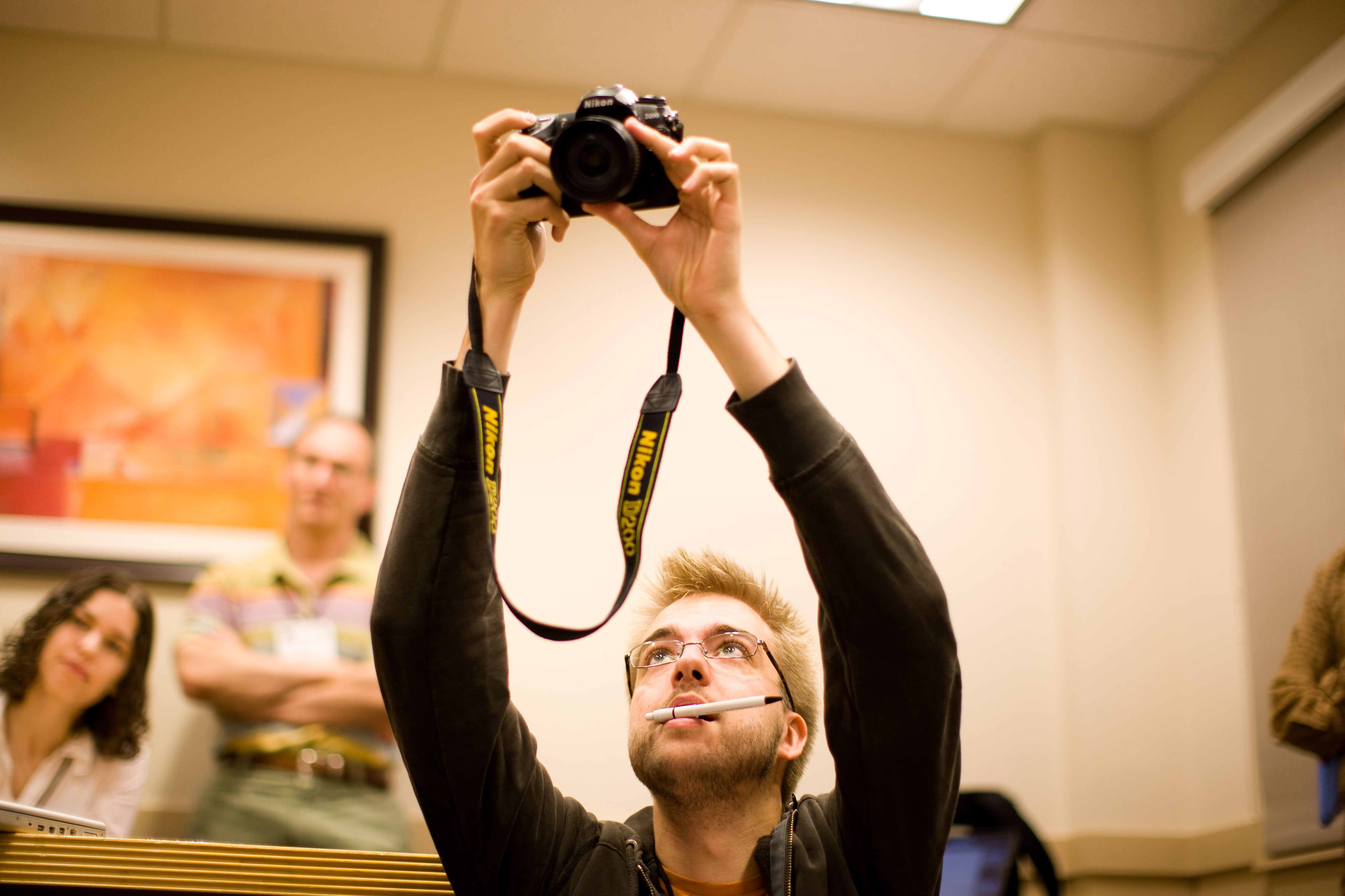 Dries Buytaert